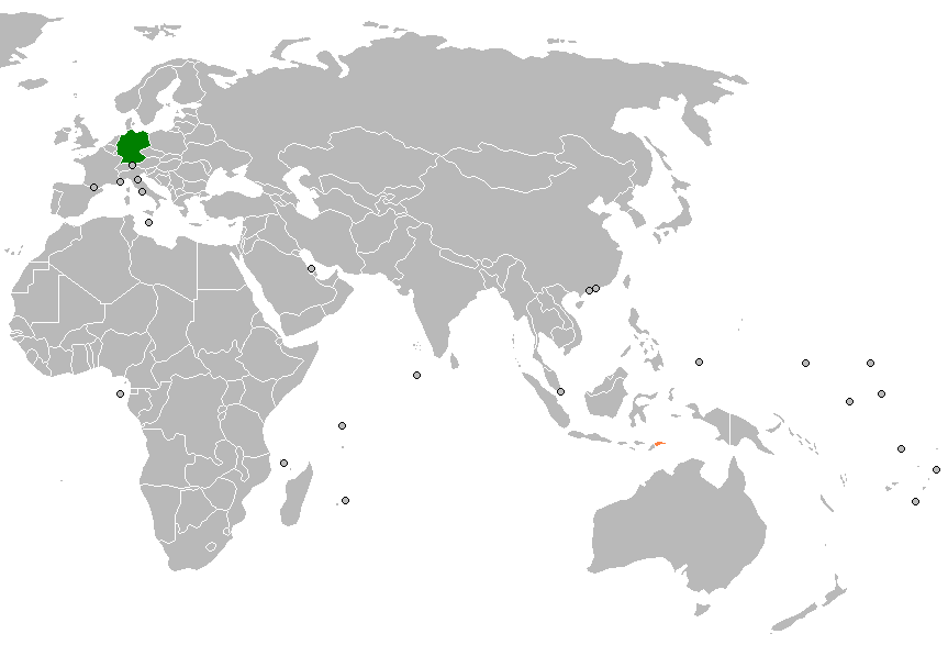 East Timor-Germany locator map